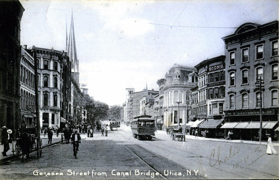 Genesee Street, Utica See Image:Utica NY c1909 LOC pan 6a14200.jpg for a view from the opposite direction in 1909.